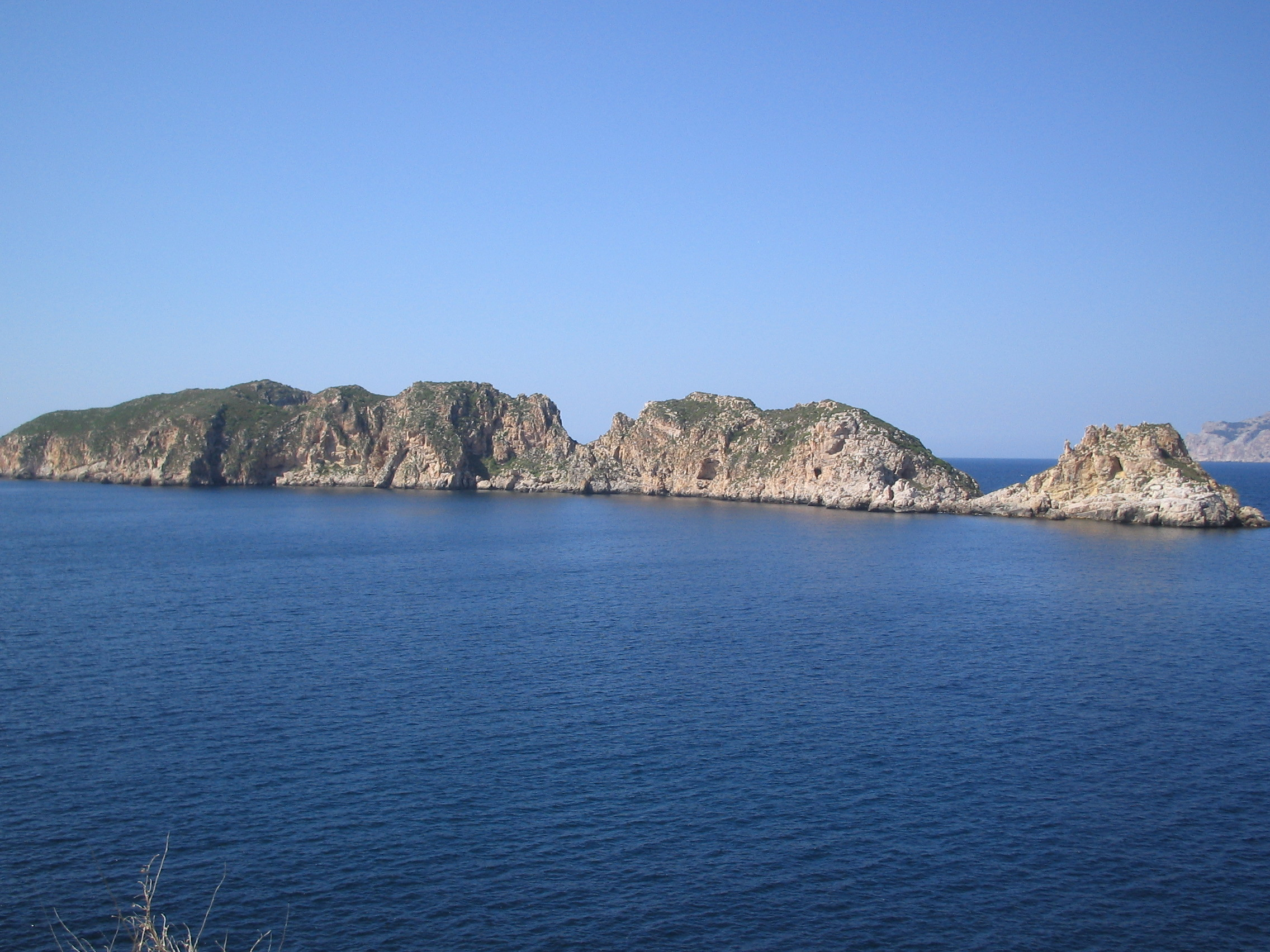 Malgrat islands in Mallorca.